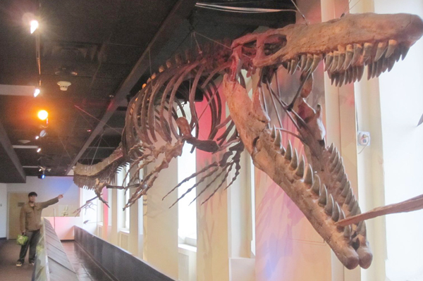 A 43 ft. (13 m) complete fossil specimen of Mosasaur species Tylosaurus proriger (with a human for scale) on display at the Academy of Natural Sciences in Philadelphia.